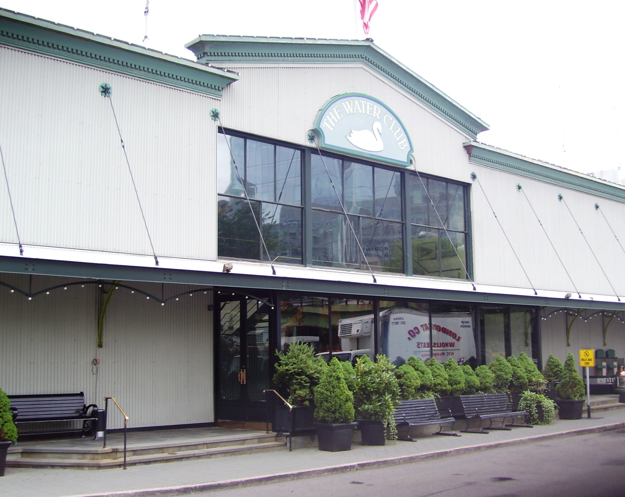 The Water Club is a restaurant on the East River in the Kips Bay neighborhood of Manhattan, New York City.